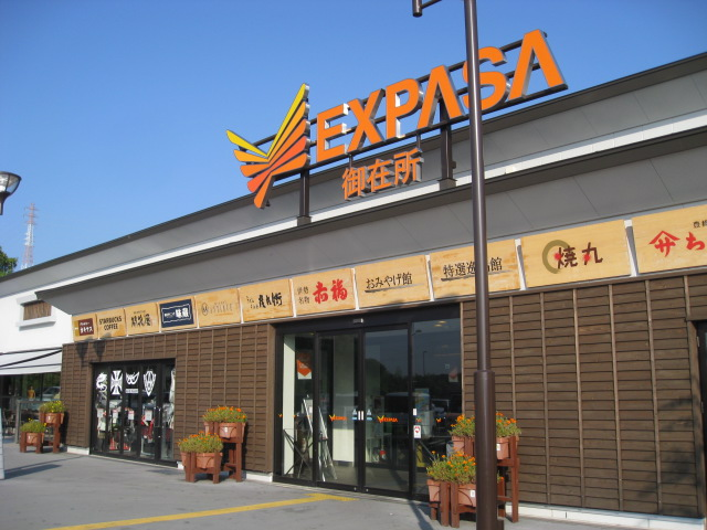 Gozaisho Service Area on the Higashi-Meihan Expressway northbound line